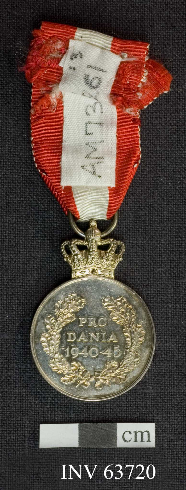 Danish medal (reverse): King Christian X's Freedom Medal, also called "Pro Dania" from the inscription on the reverse.